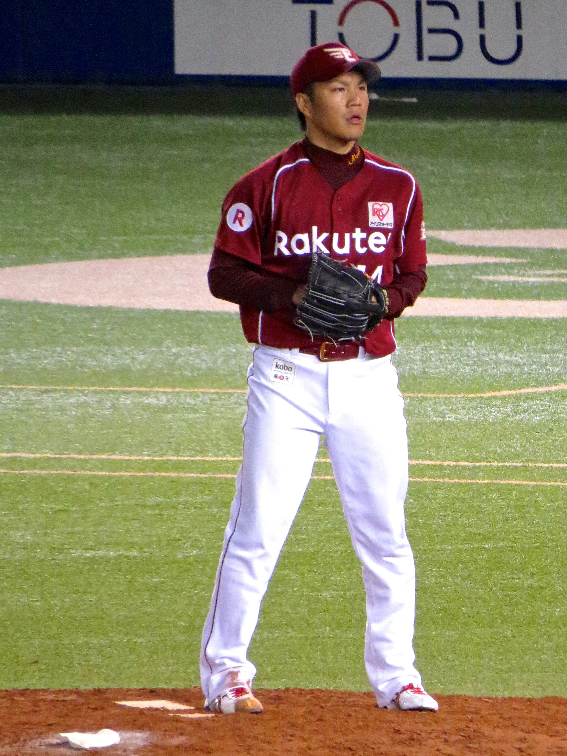 Takahiro Norimoto, pitcher of the Tohoku Rakuten Golden Eagles, at Chiba Marine Stadium.